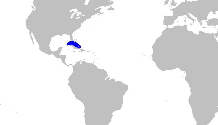 Distribution map for Eridacnis barbouri